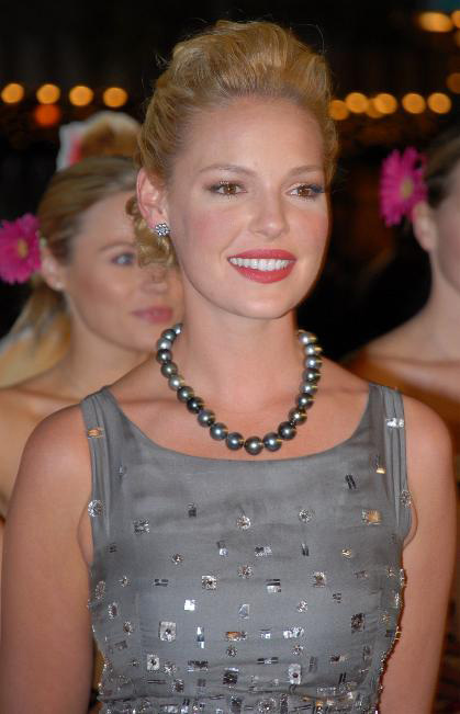 January 7, 2008 - 27 Dresses Premiere in Westwood